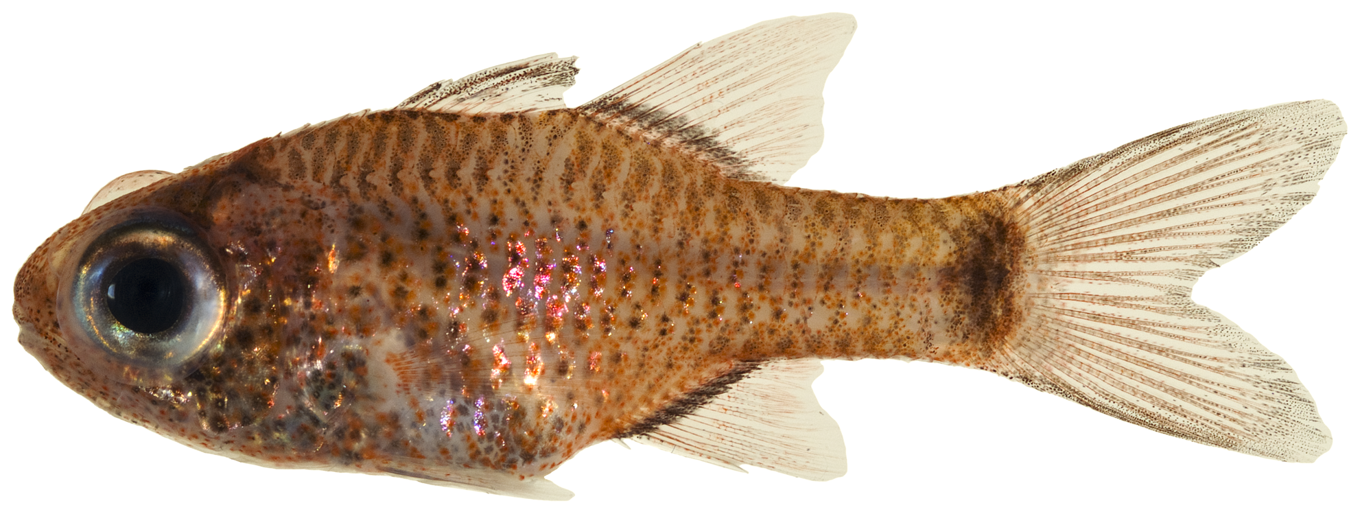 Phaeoptyx conklini (Silvester, 1916)—freckled cardinalfish, 40.0 mm SL. Photo by JT Williams.